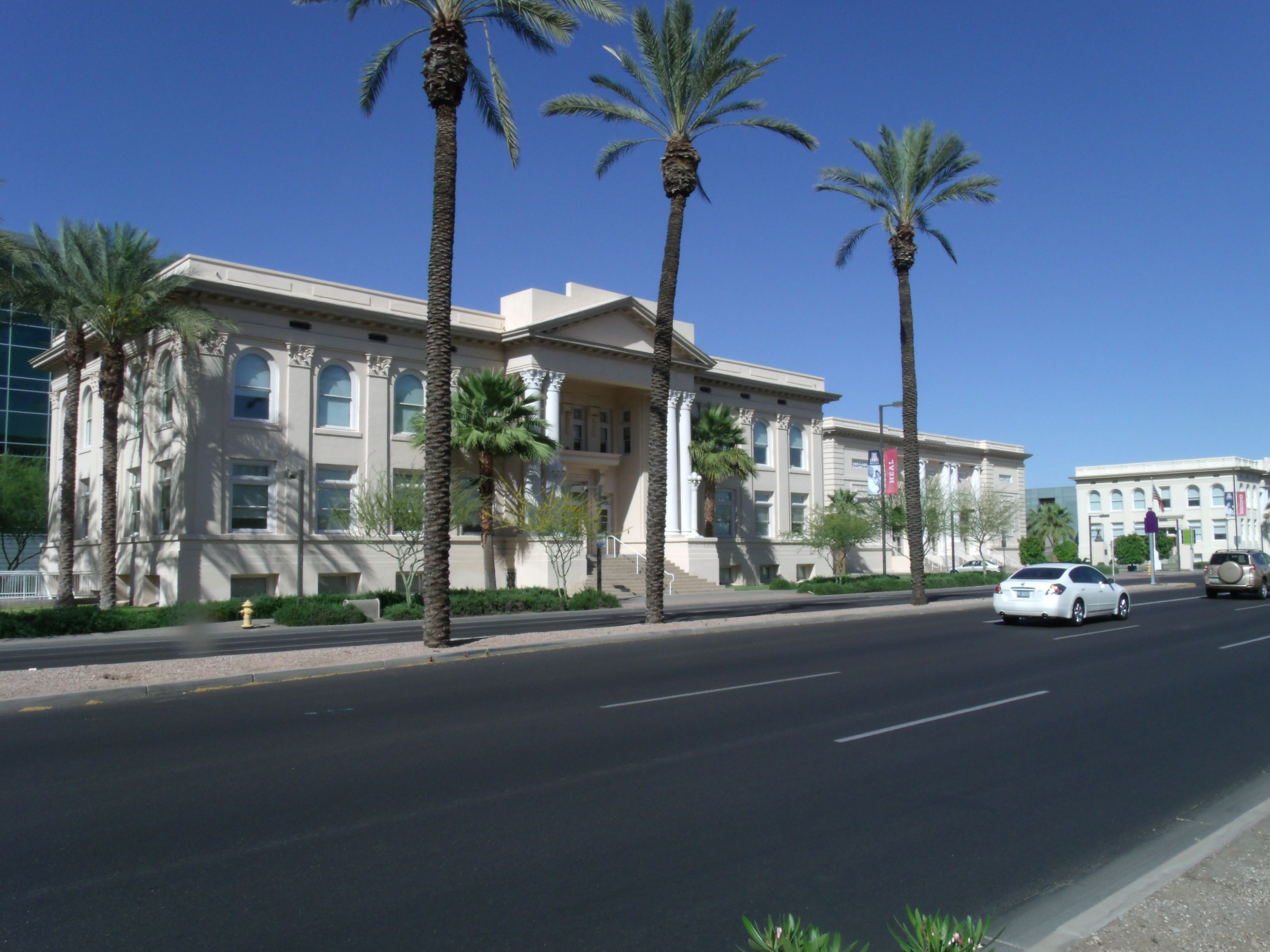 Historic (NRHP) Phoenix Union High School, built in 1912, in Phoenix, Arizona